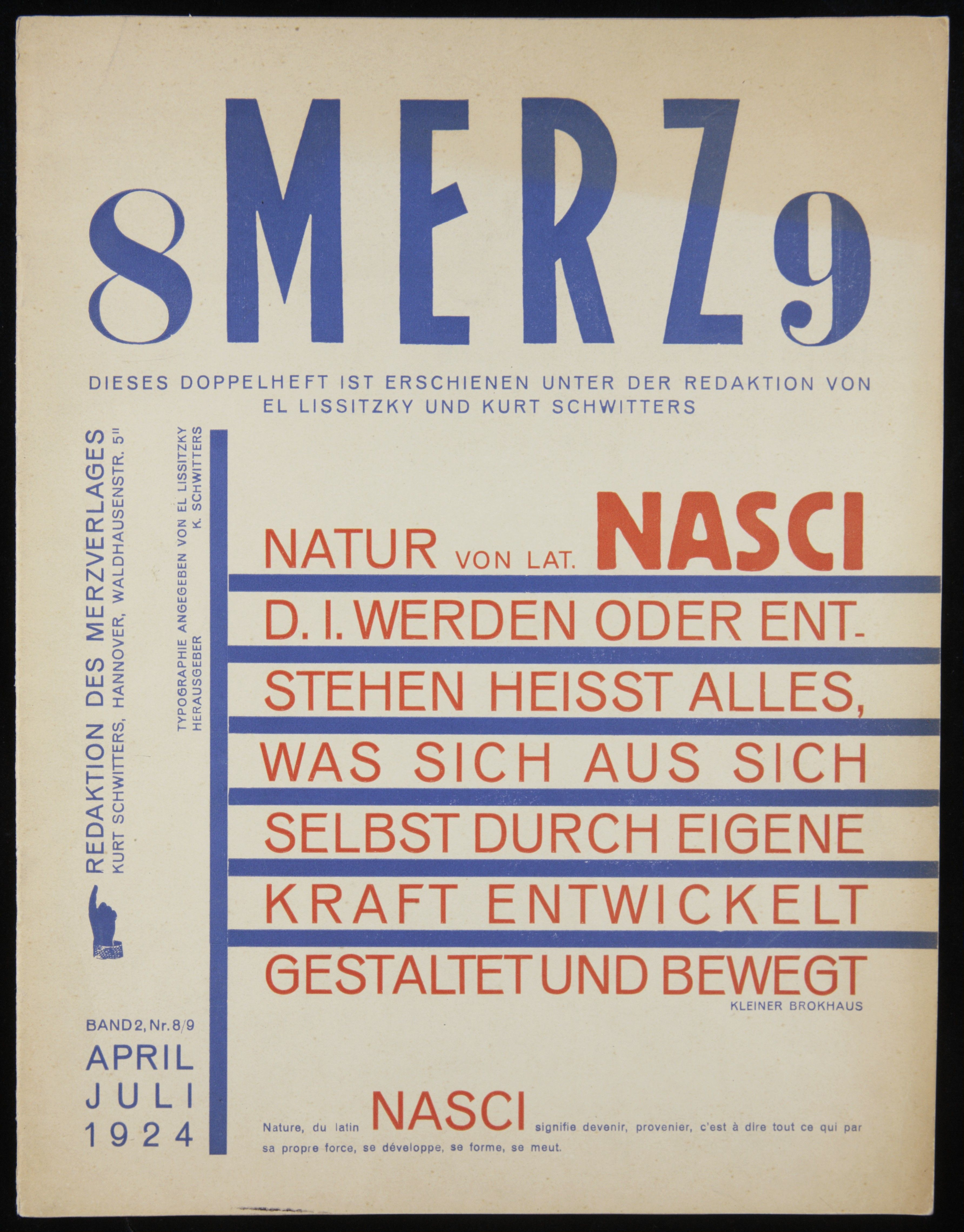 Titlepage of the Magazine Merz, Issue 8/9 1924, Title designer El Lissitzky. The Merz Magazine was one of the premiere publications of the Dada Movement and edited by Kurt Schwitters (1887–1948) Alternative names Curt Hermann Eduard Carl Julius SchwittersDescriptionGerman sculptor, painter, collage artist and poetDate of birth/death 20 June 1887 8 January 1948 Location of birth/death Hanover KendalWork location Hanover (1908), Dresden (1909-1914), Hanover (1915-1937), Prague (1921), Netherlands (1923), Drachten (1923), Kijkduin, France (1927), Italy (1928), Norway (1928), Template:Lysaker (1937-1940), United Kingdom (1940-1941), London (1941-1945), Template:Ambleside (1945-1948)Authority control : Q155158 VIAF: 27071479 ISNI: 0000 0003 6863 9129 ULAN: 500026542 LCCN: n50003922 MusicBrainz: b9b8e858-094a-4286-a248-8dfd00a4dd65 WorldCat creator QS:P170,Q155158